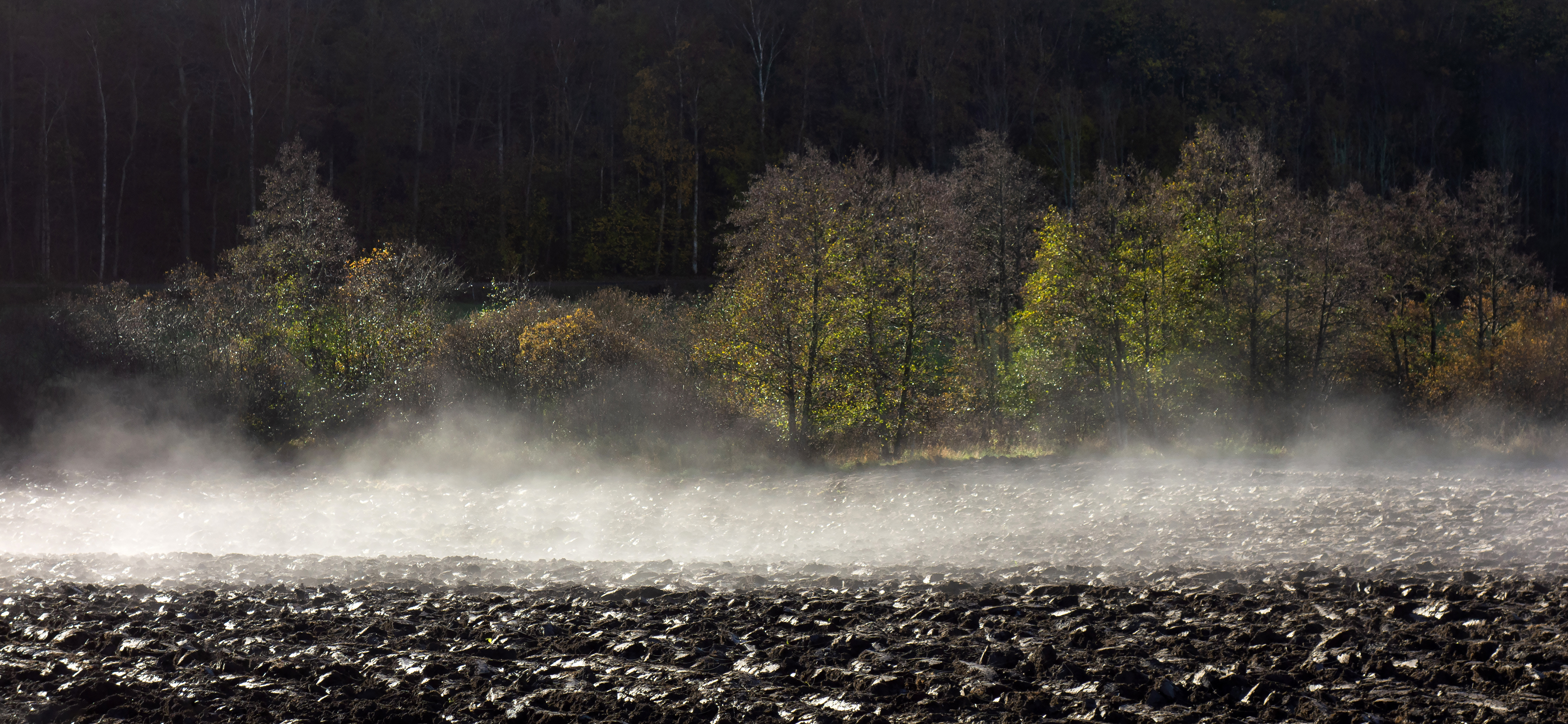 Morning mist lifting after a rainy night from a plowed field on the outskirts of Brastad, Lysekil Municipality, Sweden.